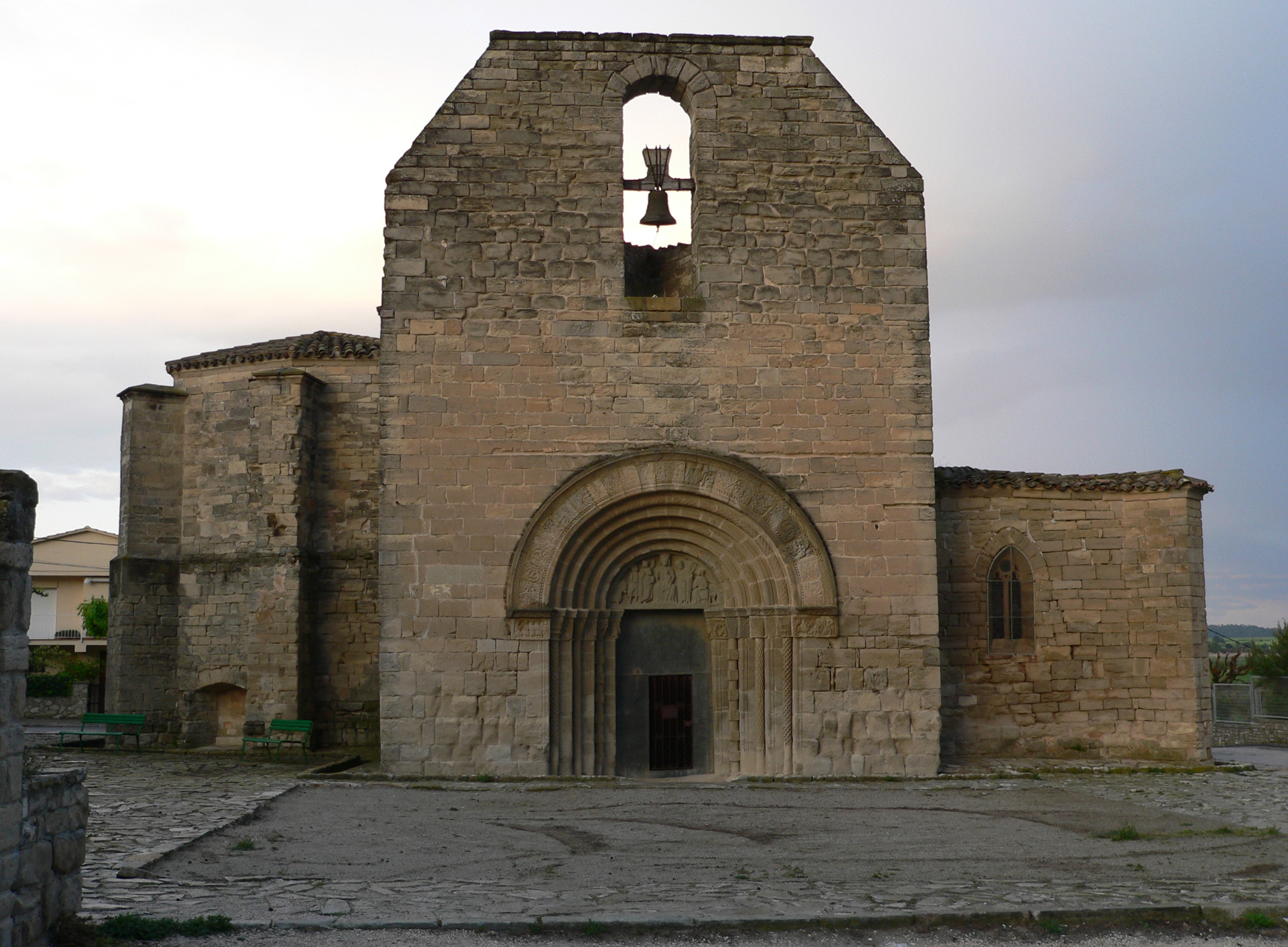 Church of Santa Maria de Bell-lloc, Santa Coloma de Queralt, Catalonia, Spain